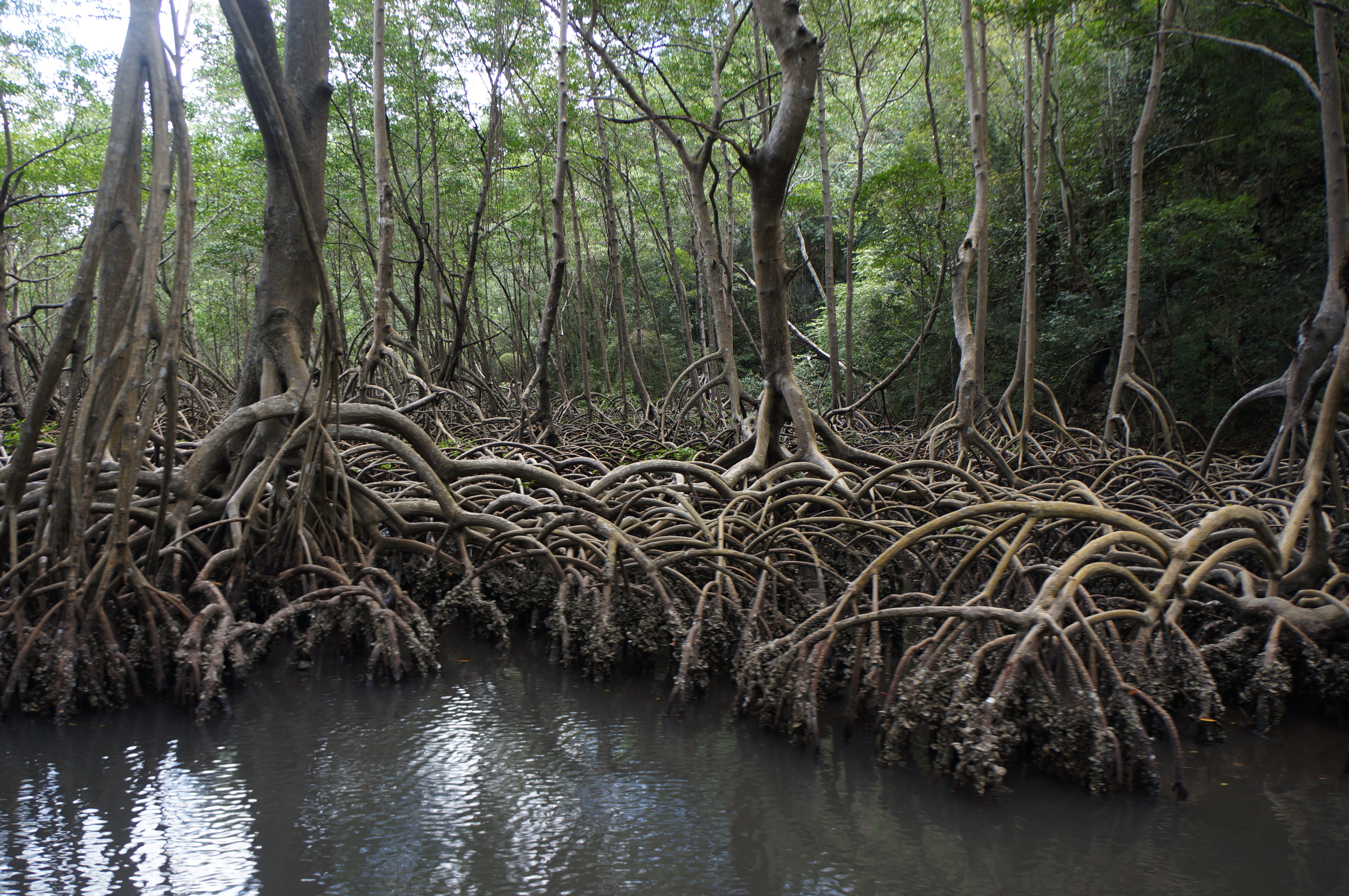 Mangrove swamp